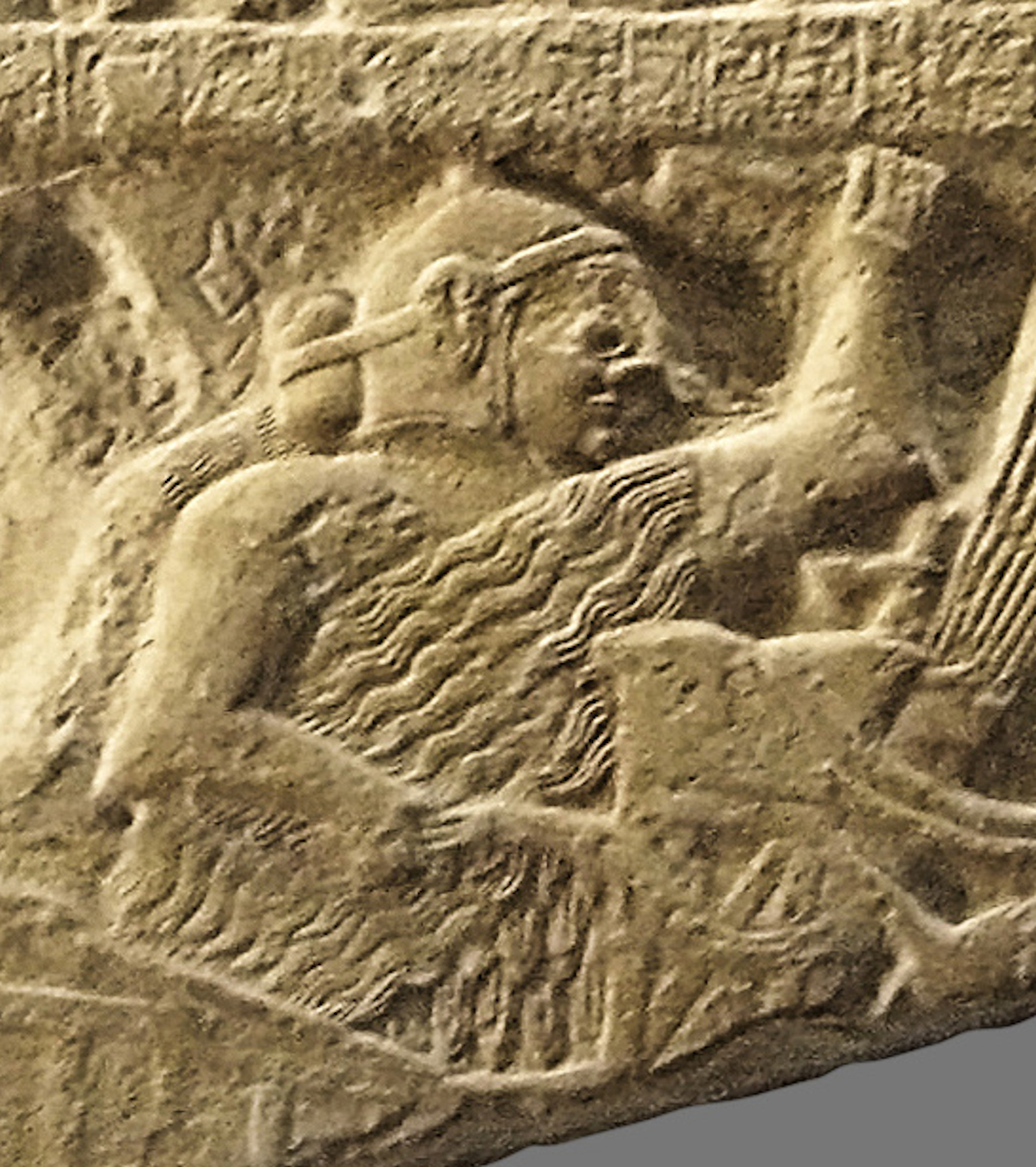 Eannatum of Lagash (detail)